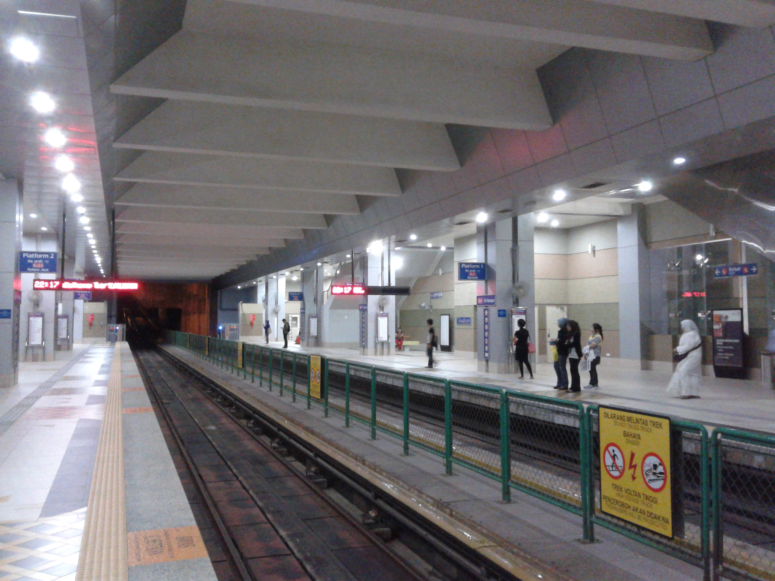 The Sri Rampai LRT station as of February 2013 after opening three years ago since 2010